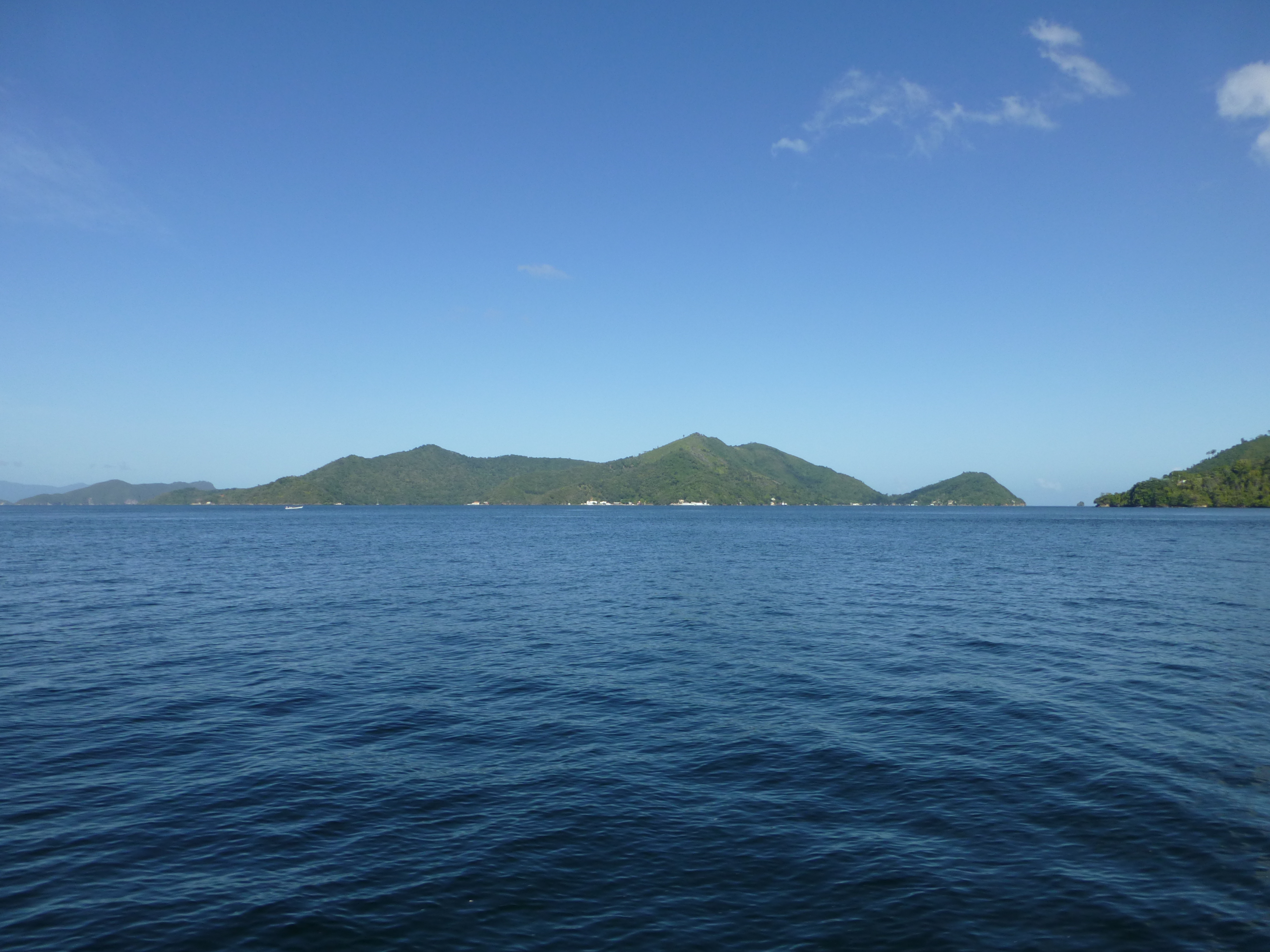 Monos, Chaguaramas, Trinidad. From left to right: Venezuela mainland, Chachacare, Monos, Tooth (a mini island), Trinidad mainland.